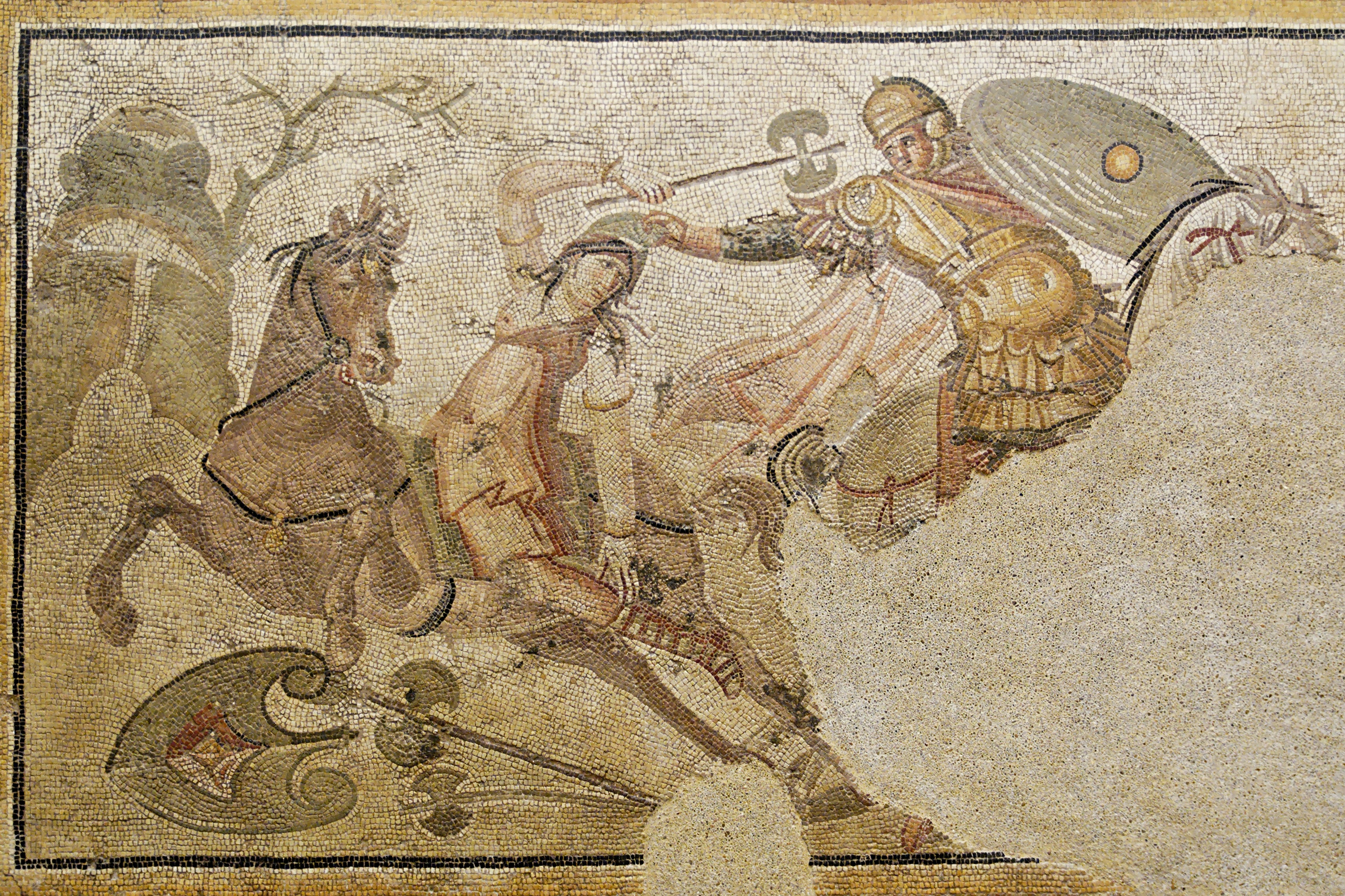 Amazonomachy, detail: Amazon warrior armed with a labrys is seized by her Phrygian cap by a hippeus. Roman mosaic emblema (marble and limestone), 2nd half of the 4th century AD. From Daphne, a suburb of Antioch on the Orontes (modern Antakya in southern Turkey).